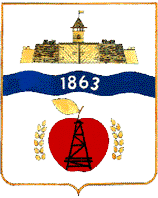 Coat of Arms of Abinsk rayon (1998)